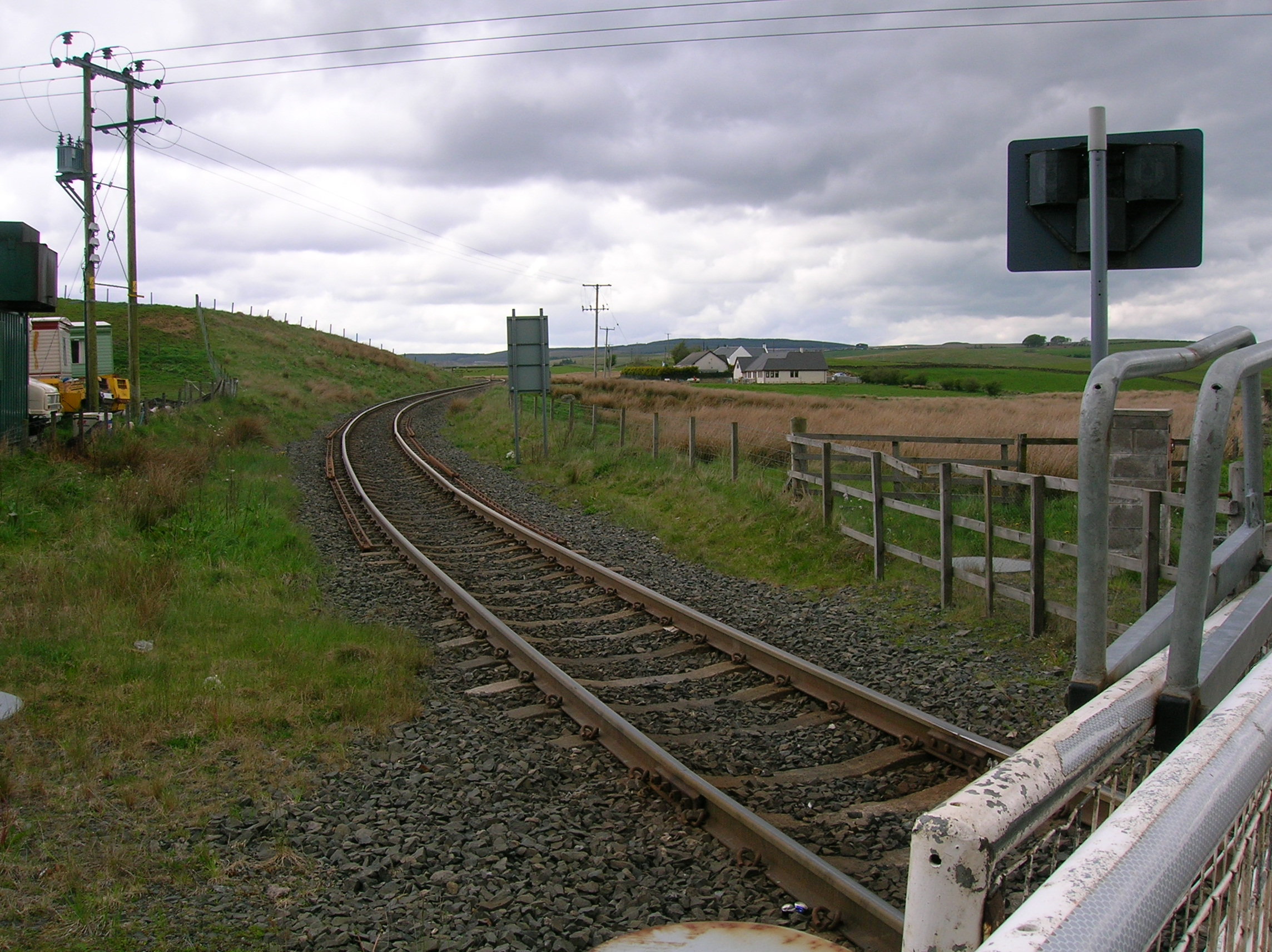 Rigghead level crossing, Knockshinnoch, Ayrshire, Scotland.